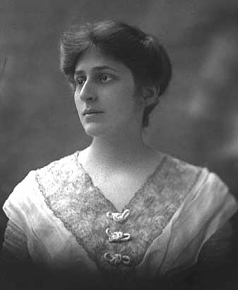 Crystal Eastman (pre-1920 photo)